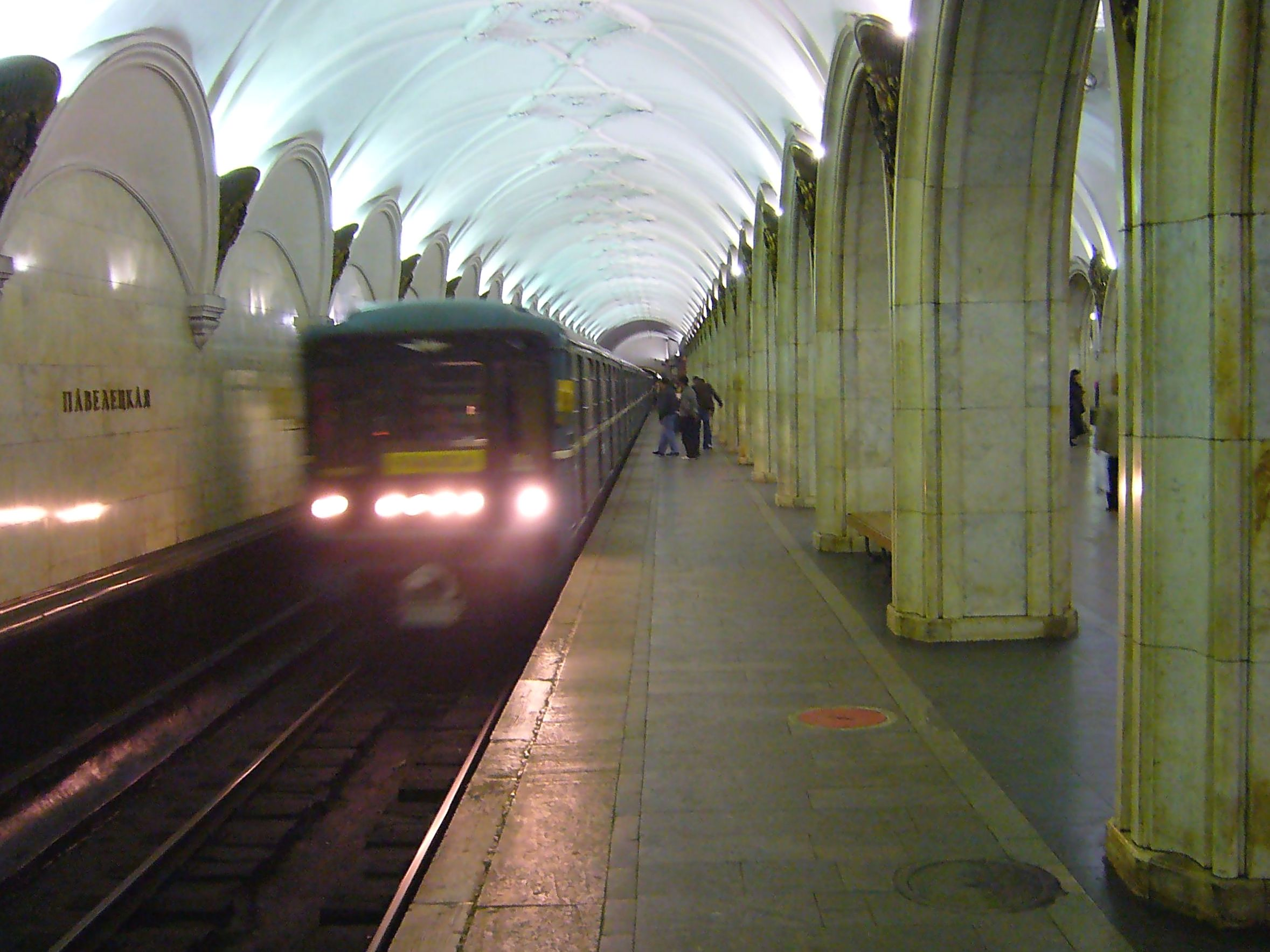 Metro, Moscow